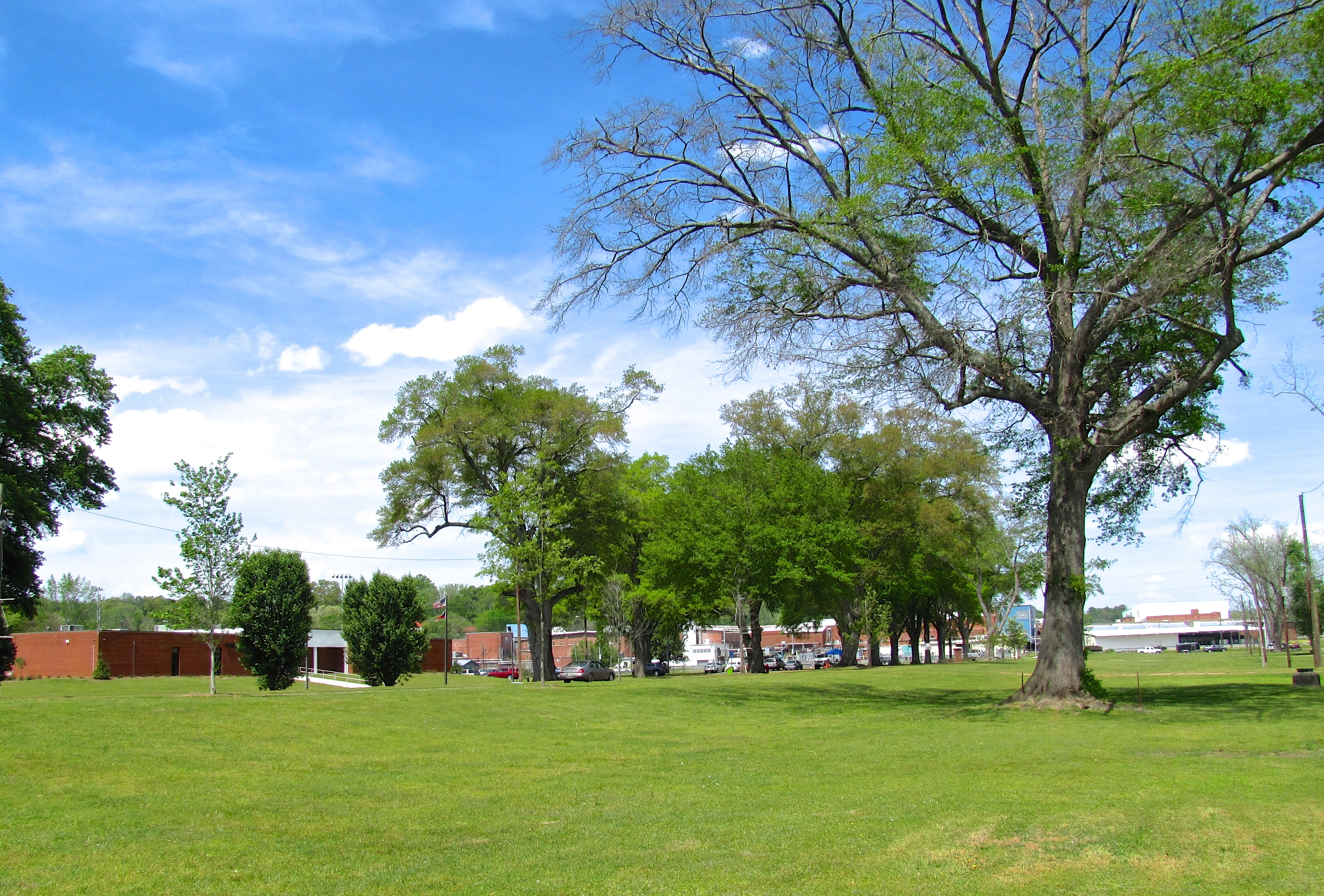 Park in Trion, Georgia, United States, with Trion Town Hall on the left, and Mount Vernon Mills in the background on the right.